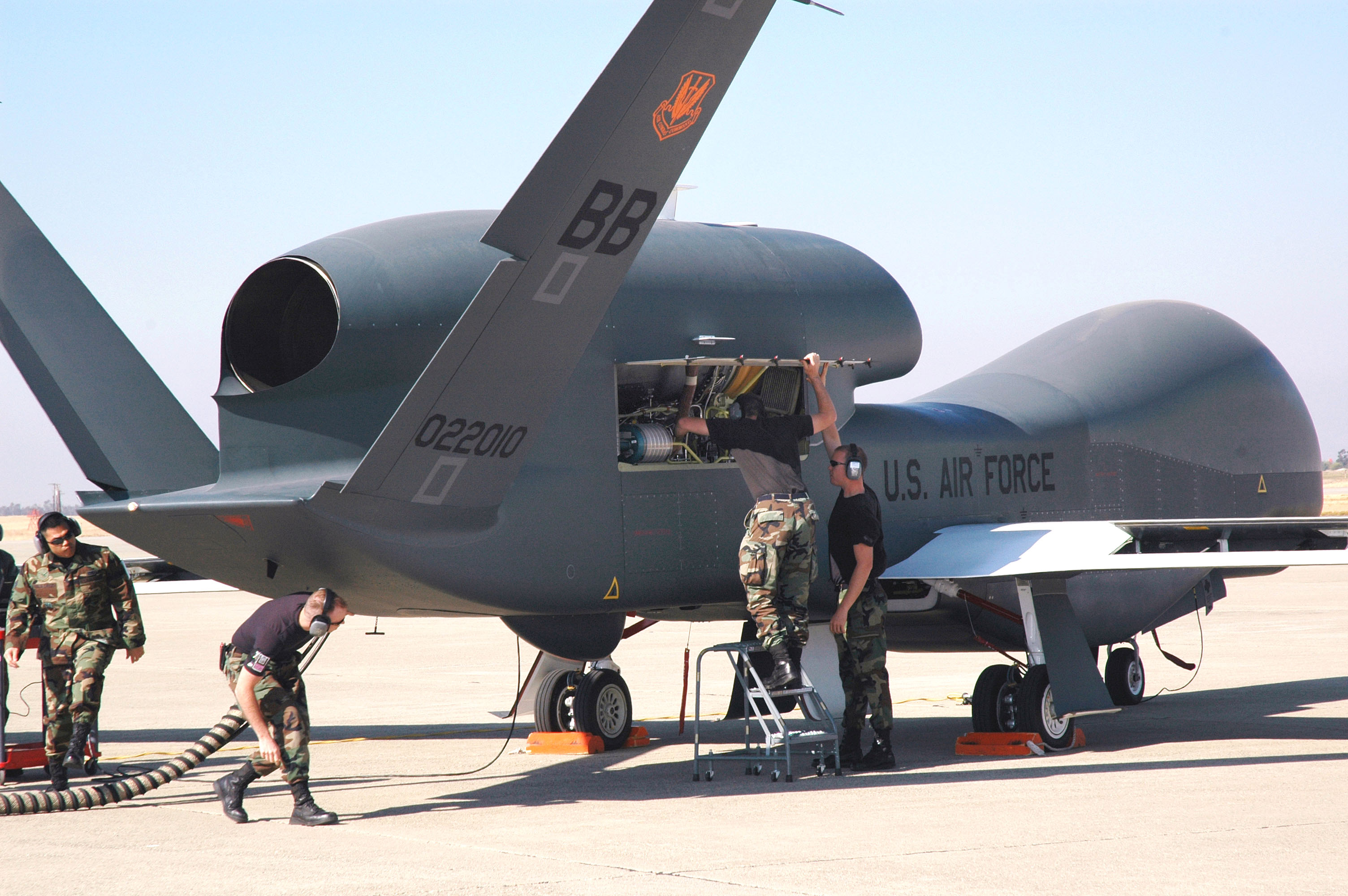 Avionics specialists with the 12th Aircraft Maintenance Unit prepare a Global Hawk for a runway taxi test at Beale Air Force Base, California. The Global Hawk is scheduled to begin flying at Beale in early November. The program is a total force effort with the Air Force Reserve's 13th Reconnaissance Squadron assisting active duty personnel.